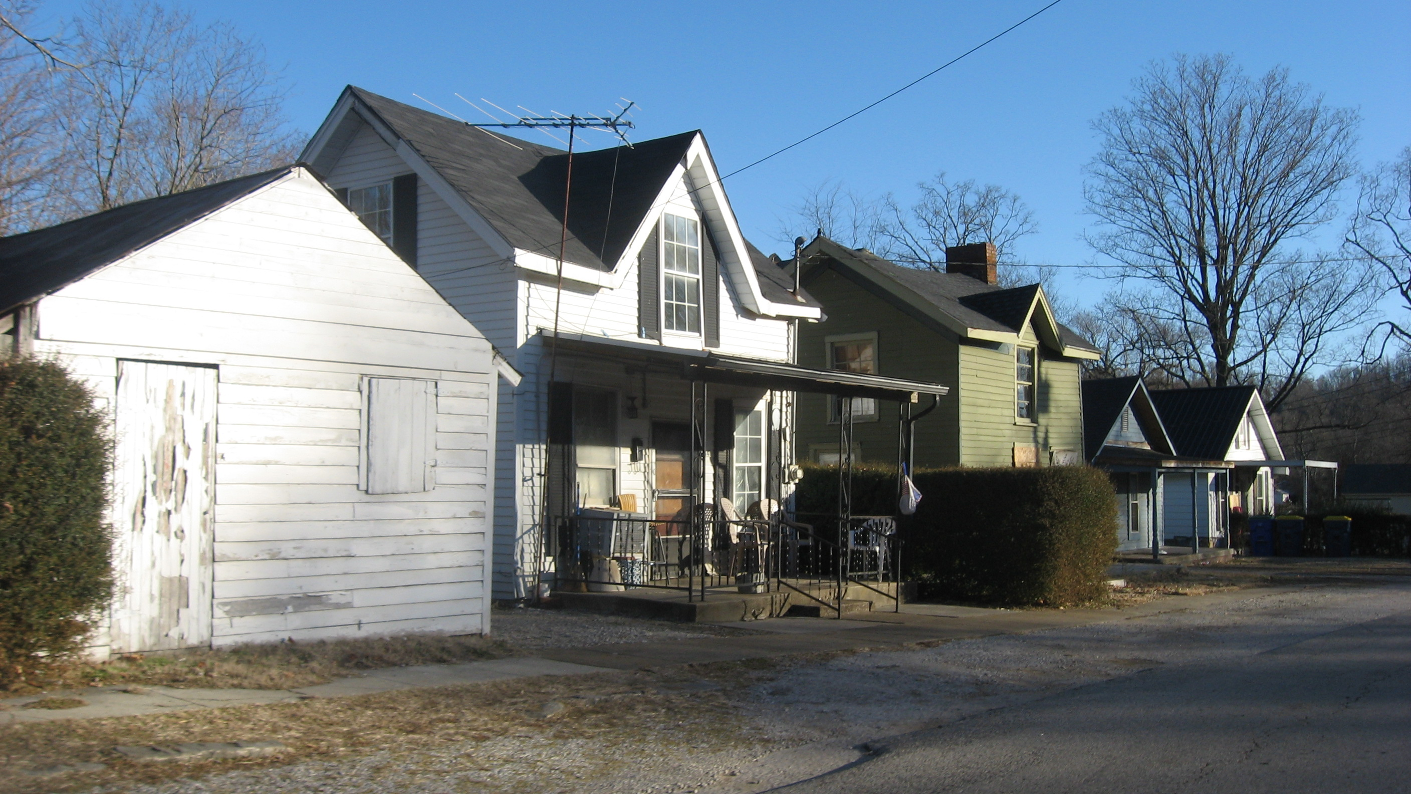 Buildings in the 500 block of E. Sixth Street in Russellville, Kentucky, United States. This block is part of the Black Bottom Historic District, a historic district that is listed on the National Register of Historic Places.